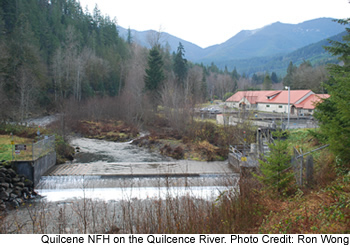 The US Fish and Wildlife Service's Quilcene National Fish Hatchery located on the West side of the Olympic Peninsula in Washington State.